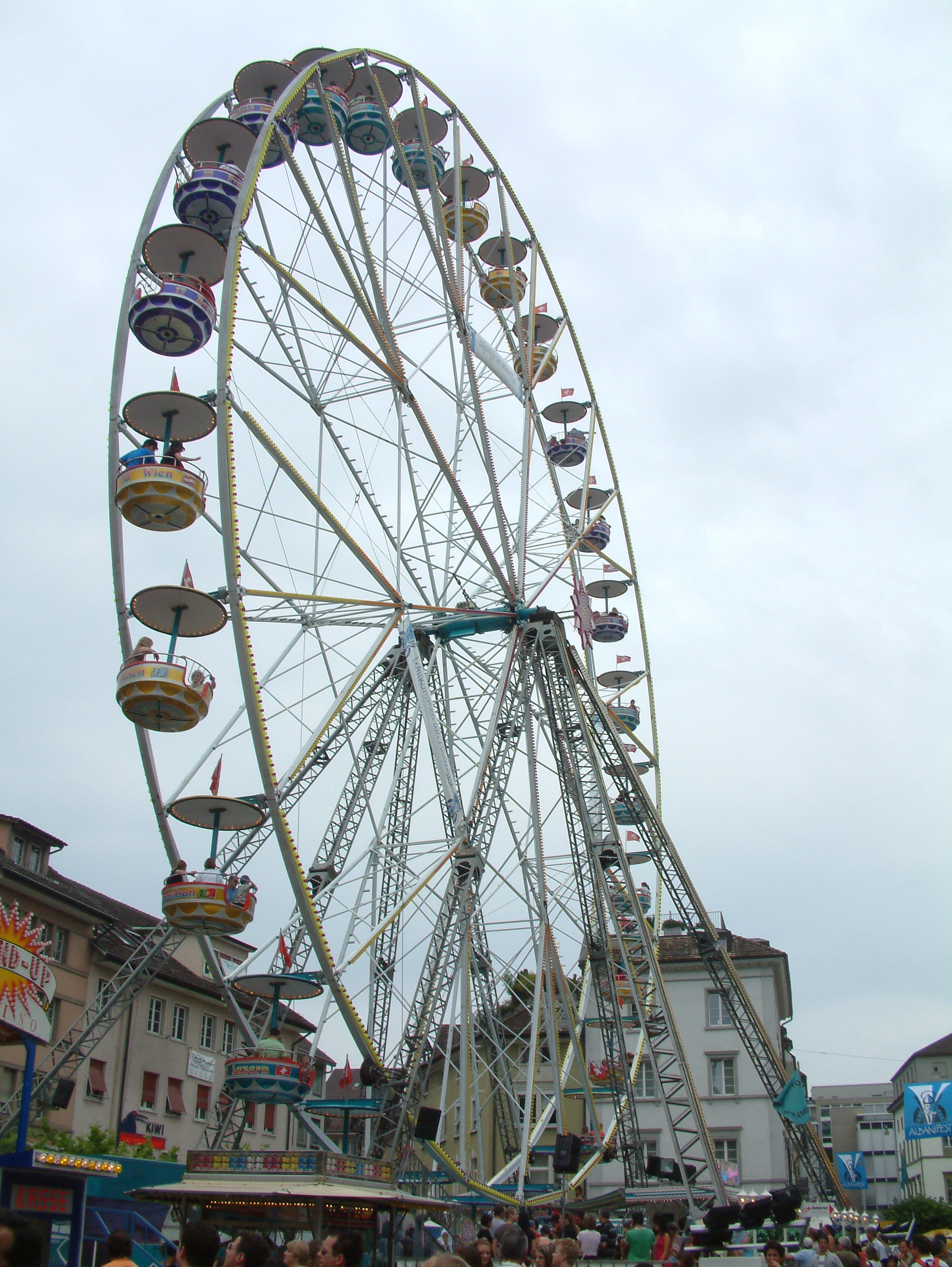 the big weel at Switzerland Albani celebration Winterhur